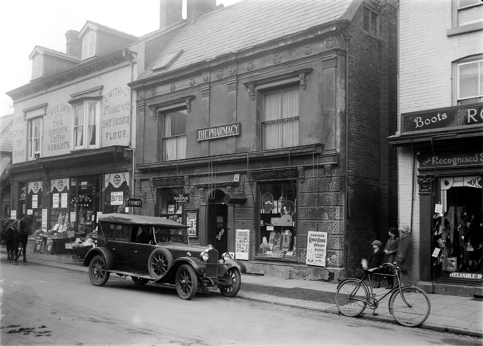 The pharmacy, Tenbury Wells, Hickman's surgery. Wellcome Images Keywords: Henry Hill Hickman